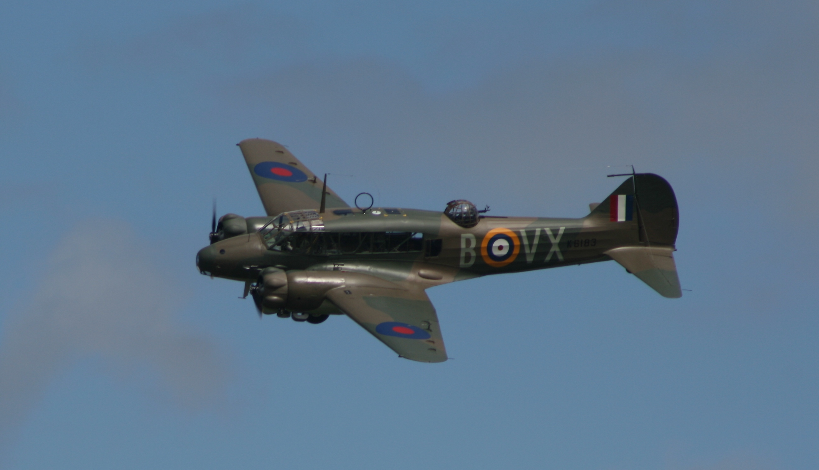 Avro Anson 652A MkI at Ardmore Aerodrome de Havilland Mosquito Launch Spectacular, 2012. (Reg ZK-RRA, S/No. MH-120)